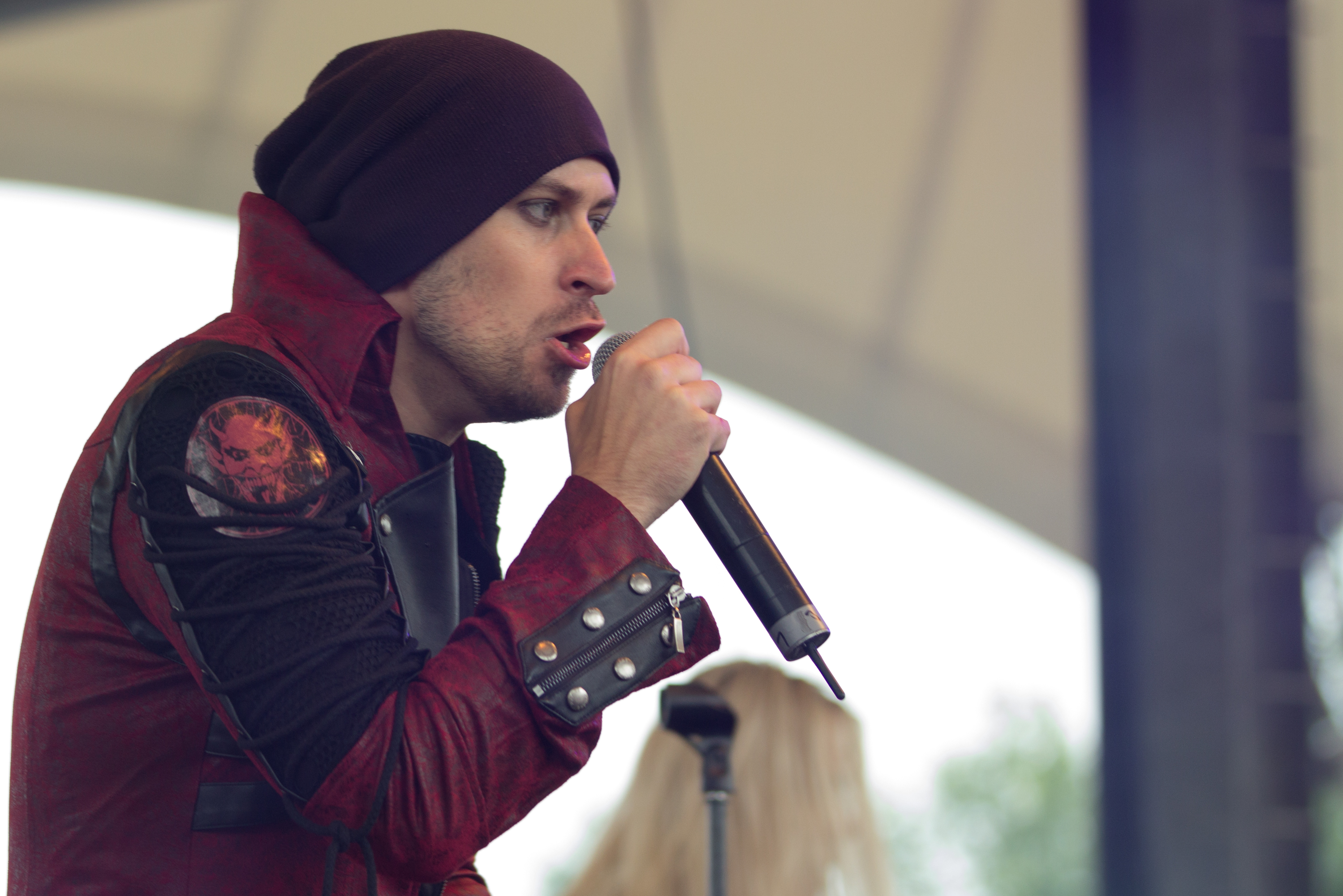 Bloodbound at Sabaton Open Air Deutschland / Noch ein Bier Fest 2015 on 2015/07/25 in Amphitheater, Gelsenkirchen, Germany